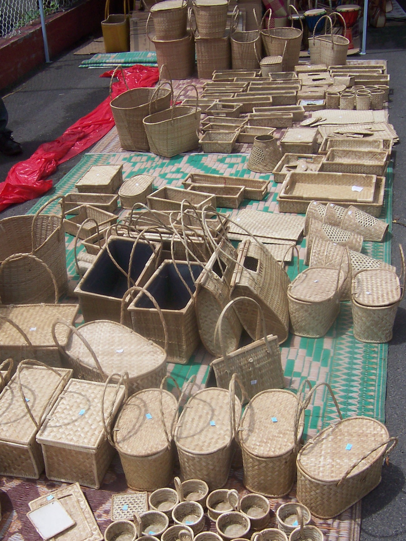 Pandanus heterocarpus (